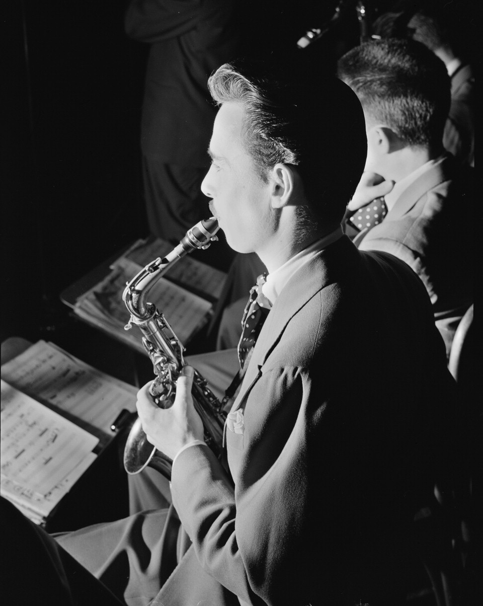 Portrait of George William Weidler, 1947 or 1948. He was an American musician and songwriter. He was the second husband of actress-singer Doris Day (married 1946-49). He was also the brother of former child actress Virginia Weidler. By Gottlieb, William P., 1917-, photographer. 1 negative : b&w ; 3 1/4 x 4 1/4 in. Notes: Gottlieb Collection Assignment No. 176 Purchase William P. Gottlieb Forms part of: William P. Gottlieb Collection (Library of Congress). Subjects: Weidler, George Stan Kenton Orchestra Jazz musicians--1940-1950. Saxophonists--1940-1950. Format: Portrait photographs--1940-1950. Group portraits--1940-1950. Film negatives--1940-1950. Rights Info: Mr. Gottlieb has dedicated these works to the public domain, but rights of privacy and publicity may apply. Repository: (negative) Library of Congress, Prints & Photographs Division, Washington D.C. 20540 USA, Part Of: William P. Gottlieb Collection (DLC) 99-401005 General information about the Gottlieb Collection is available at Persistent URL: Call Number: LC-GLB23- 1612 This work is from the William P. Gottlieb collection at the Library of Congress. Rights and restrictions.In accordance with the wishes of William Gottlieb, the photographs in this collection entered into the public domain on February 16, 2010.